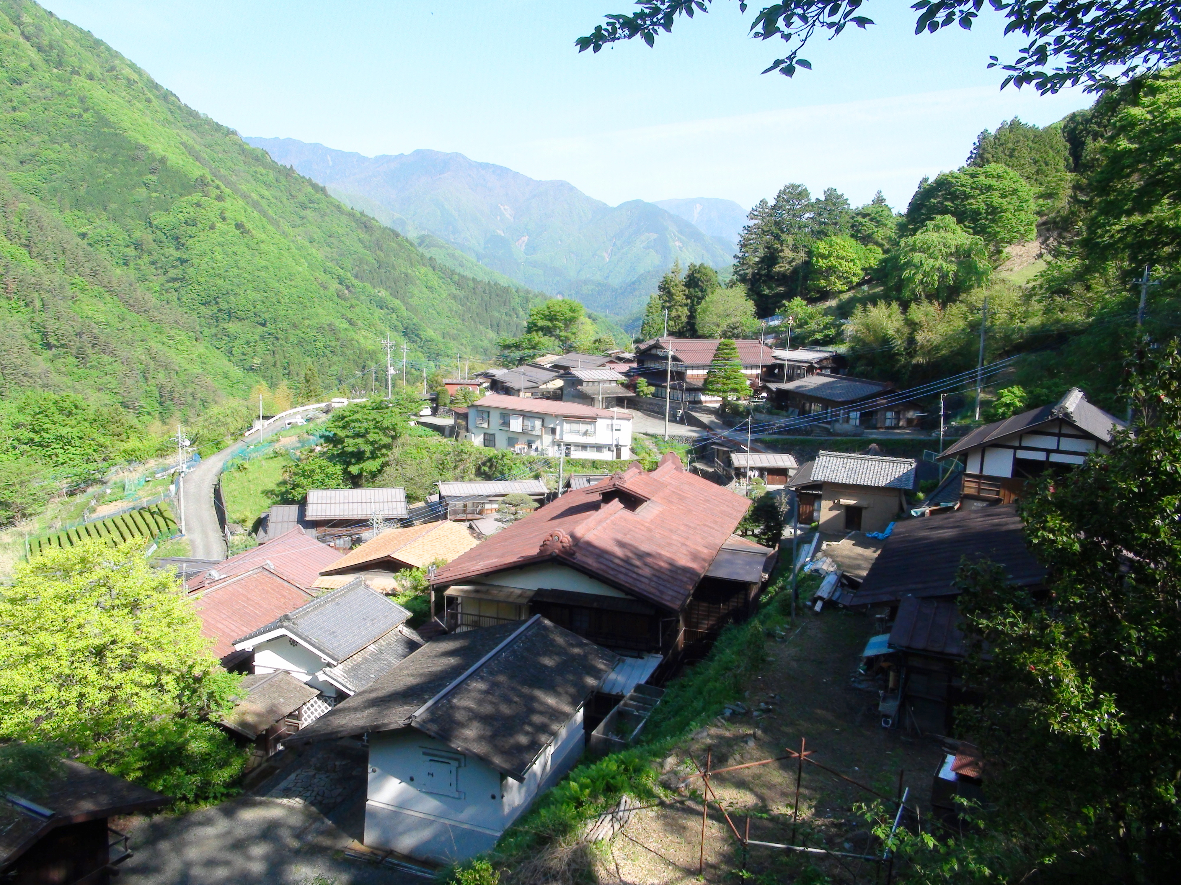 Scenery of the Akasawa district